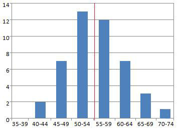 Age of US president at date of ascension to office in five-year age groups